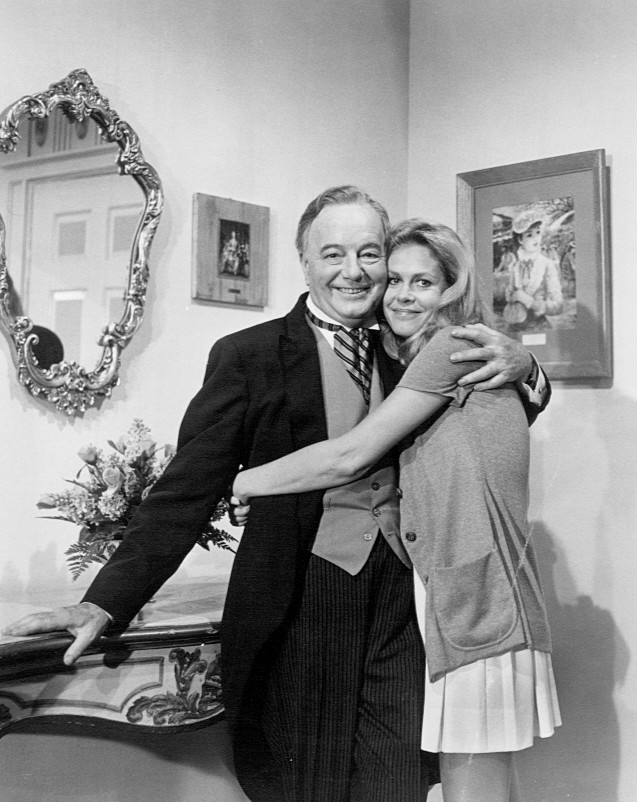 Photo of Maurice Evans as Samantha's Dad, Maurice and Elizabeth Montgomery as Samantha from Bewitched. The family takes a trip to Paris in this episode.